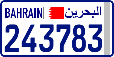 License plate from Bahrain